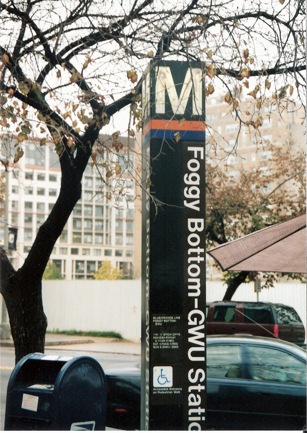 The station entrance pylon for the Washington Metro station Foggy Bottom – GWU.